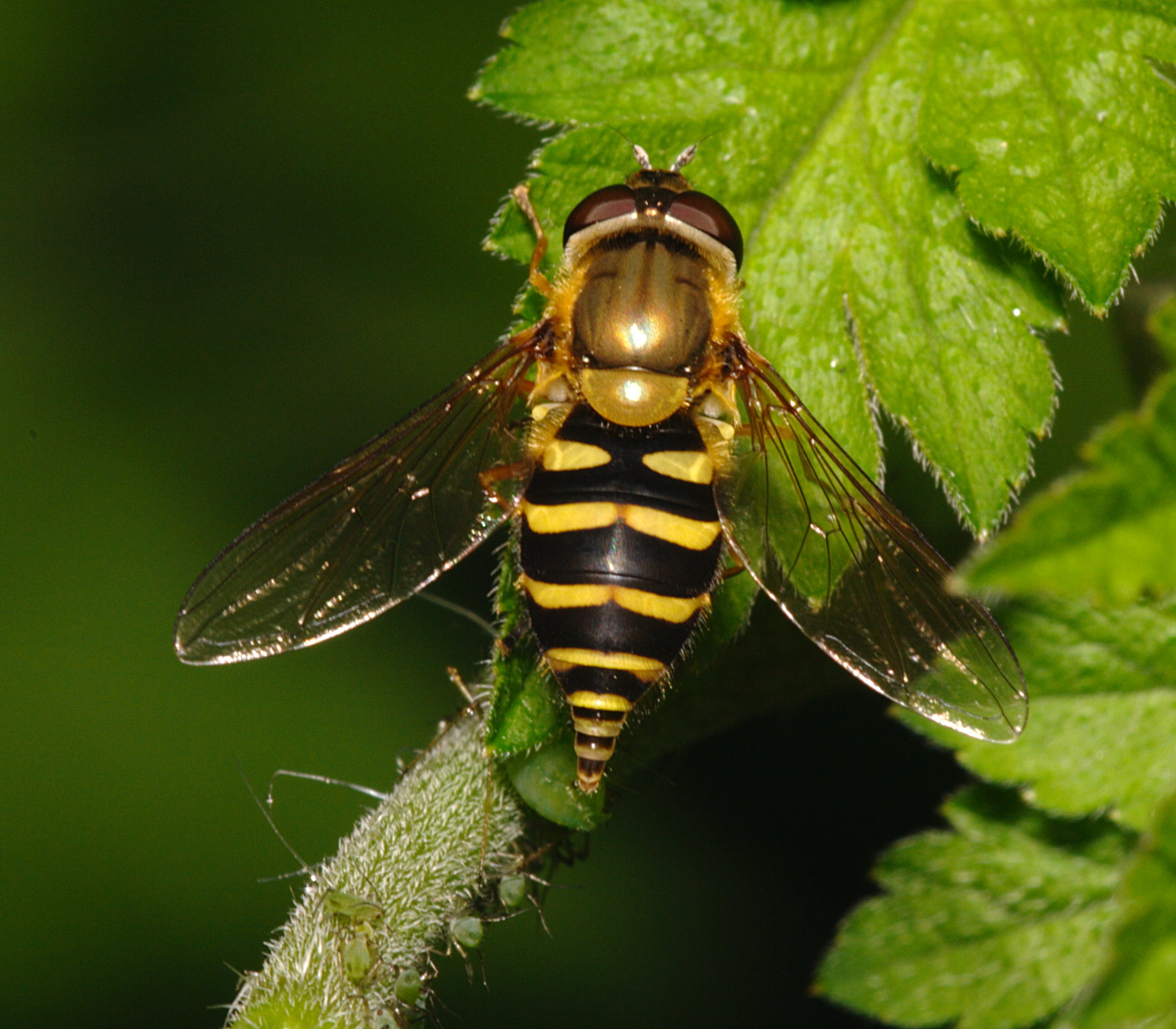 female Syrphus ribesii from Cologne, Germany. Notice the aphids nearby, which are eaten by the larvae.